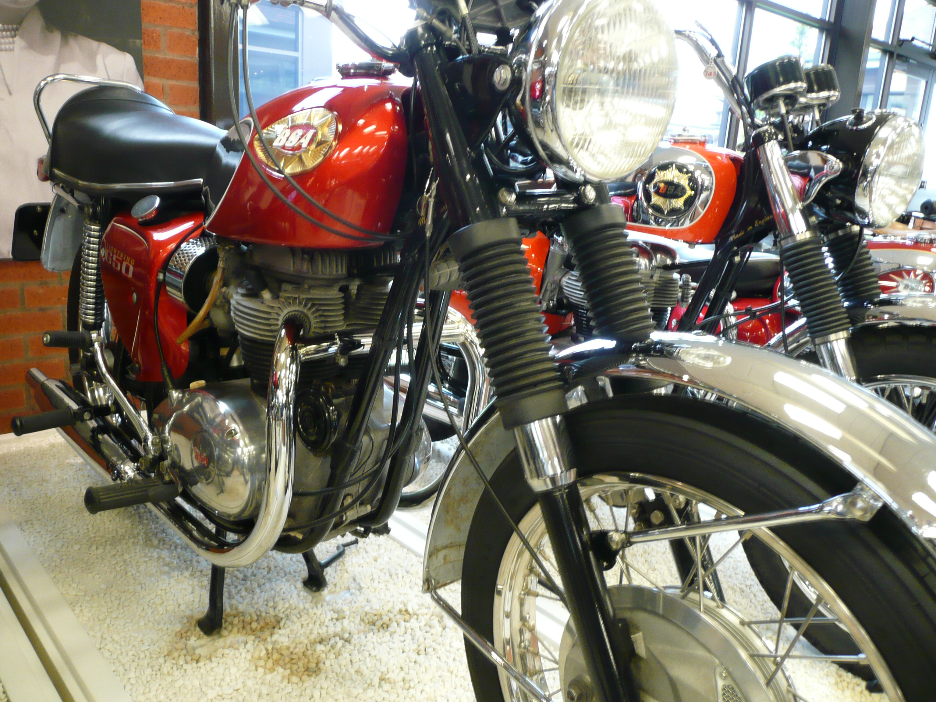 BSA Lightning motorcycle 1970